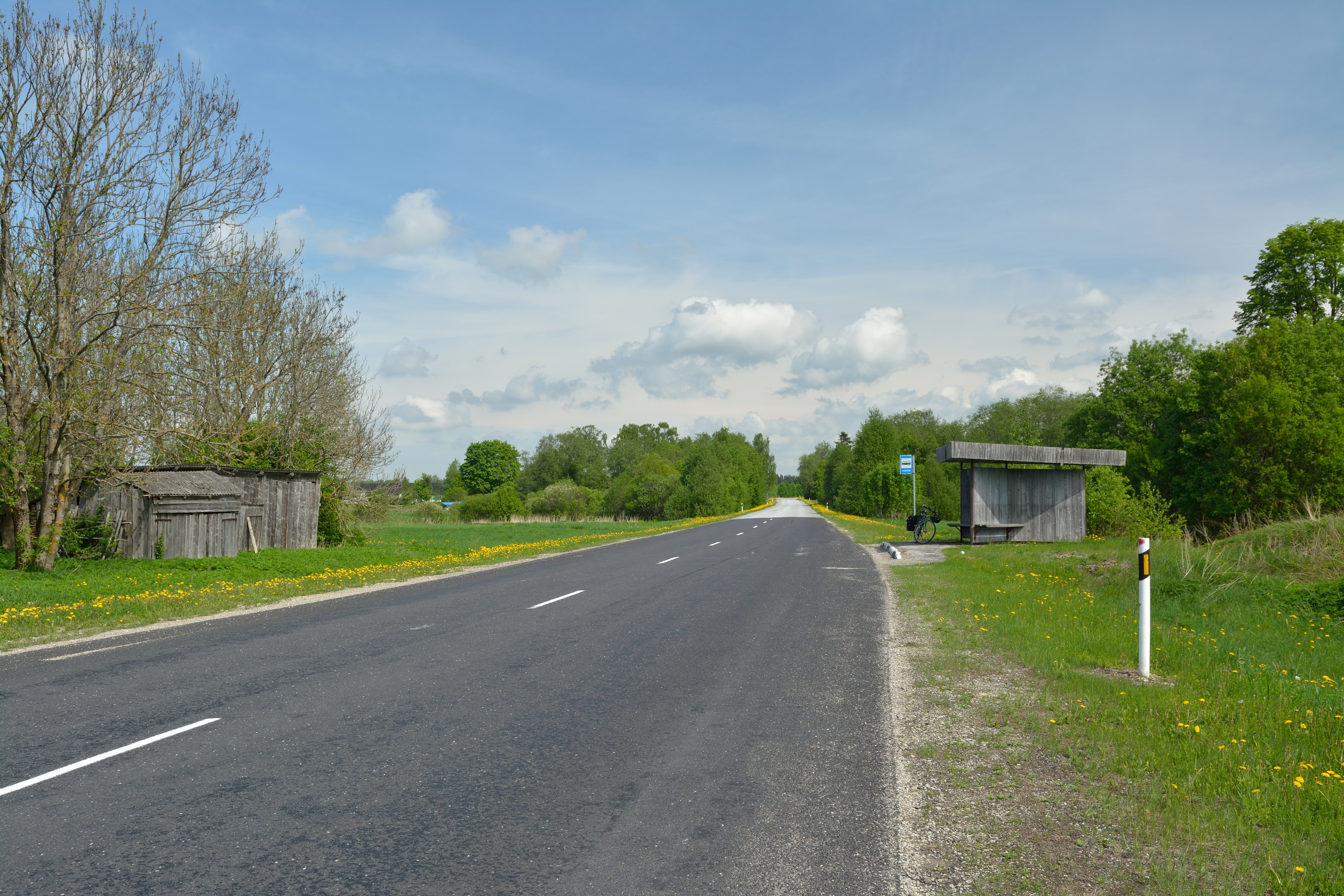 Kose–Purila road in Vaopere village (Estonia)